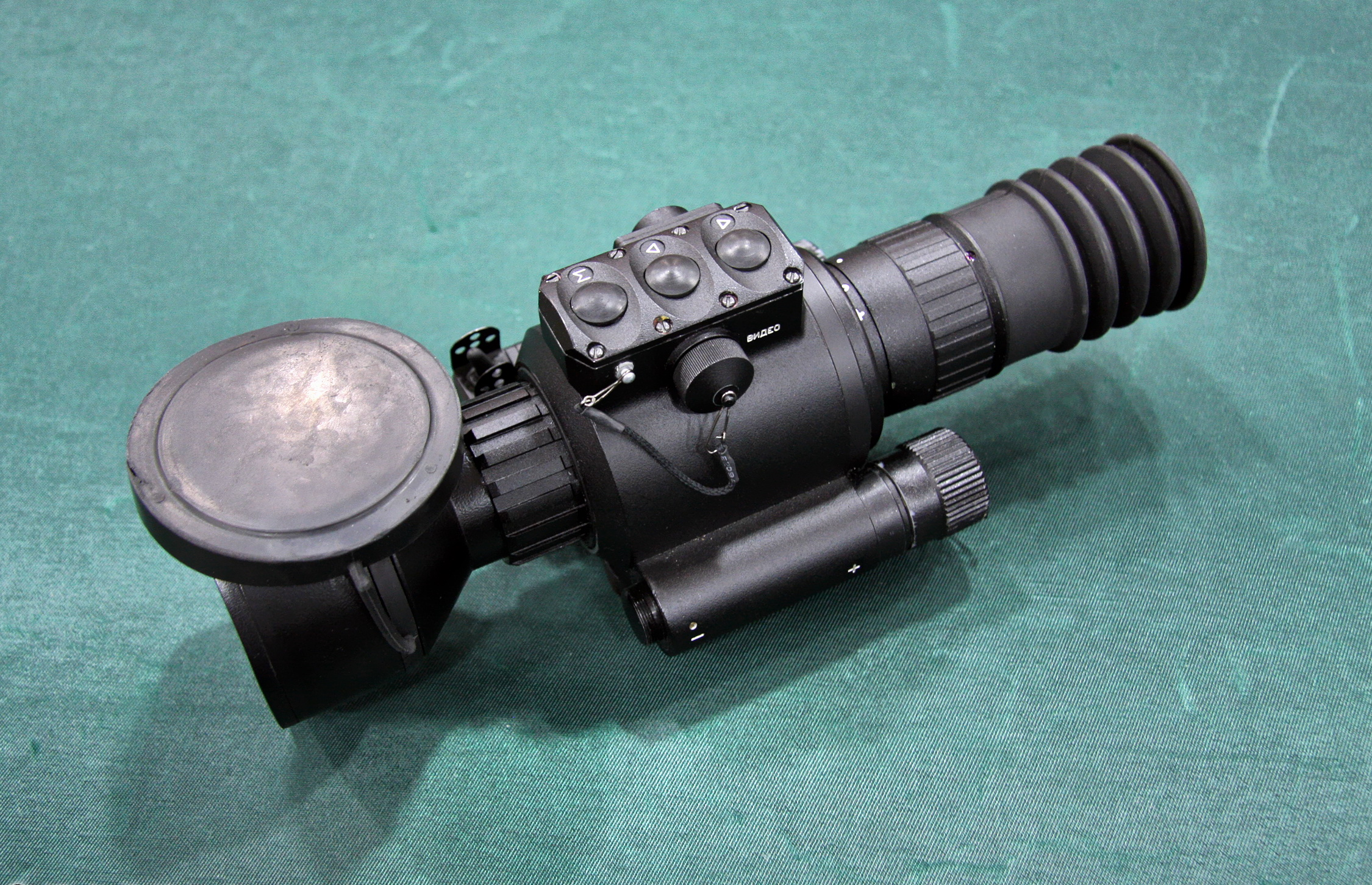 Shakhin thermal imaging scope